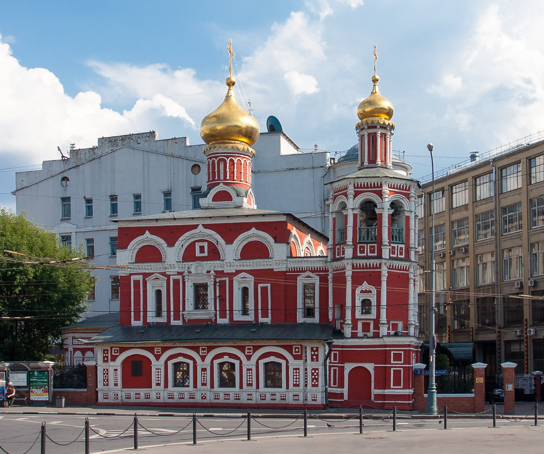 All Saints Church in Kilishki (Moscow, Russia)